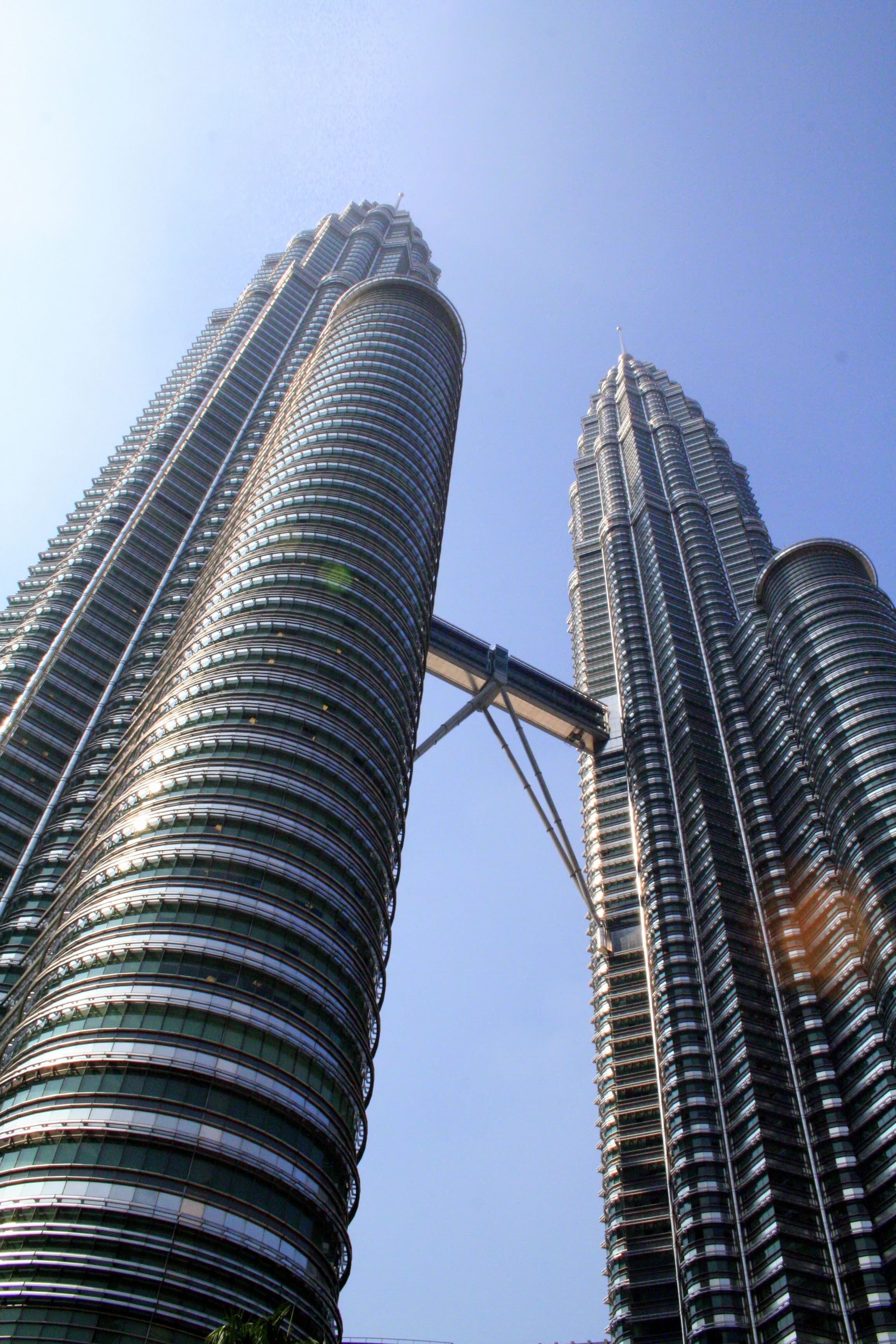 Petronas Towers in Kuala Lumpur, Malaysia. Once the tallest towers in the world (measured to the "architectural top", but now unseated by the Taipei 101 (since Oct. 2003)